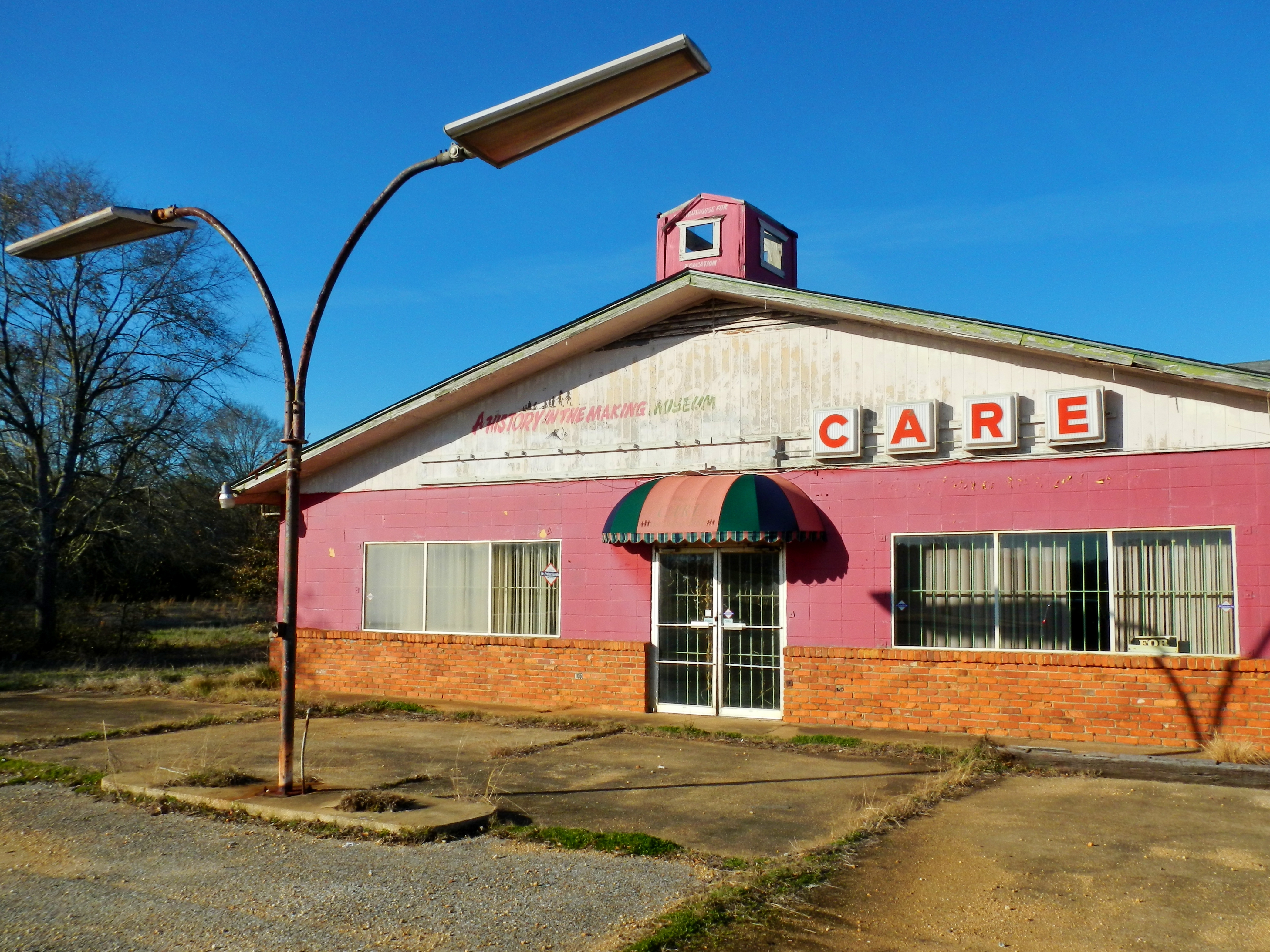 This is a photo of the Pink CARE building in Benton, AL.